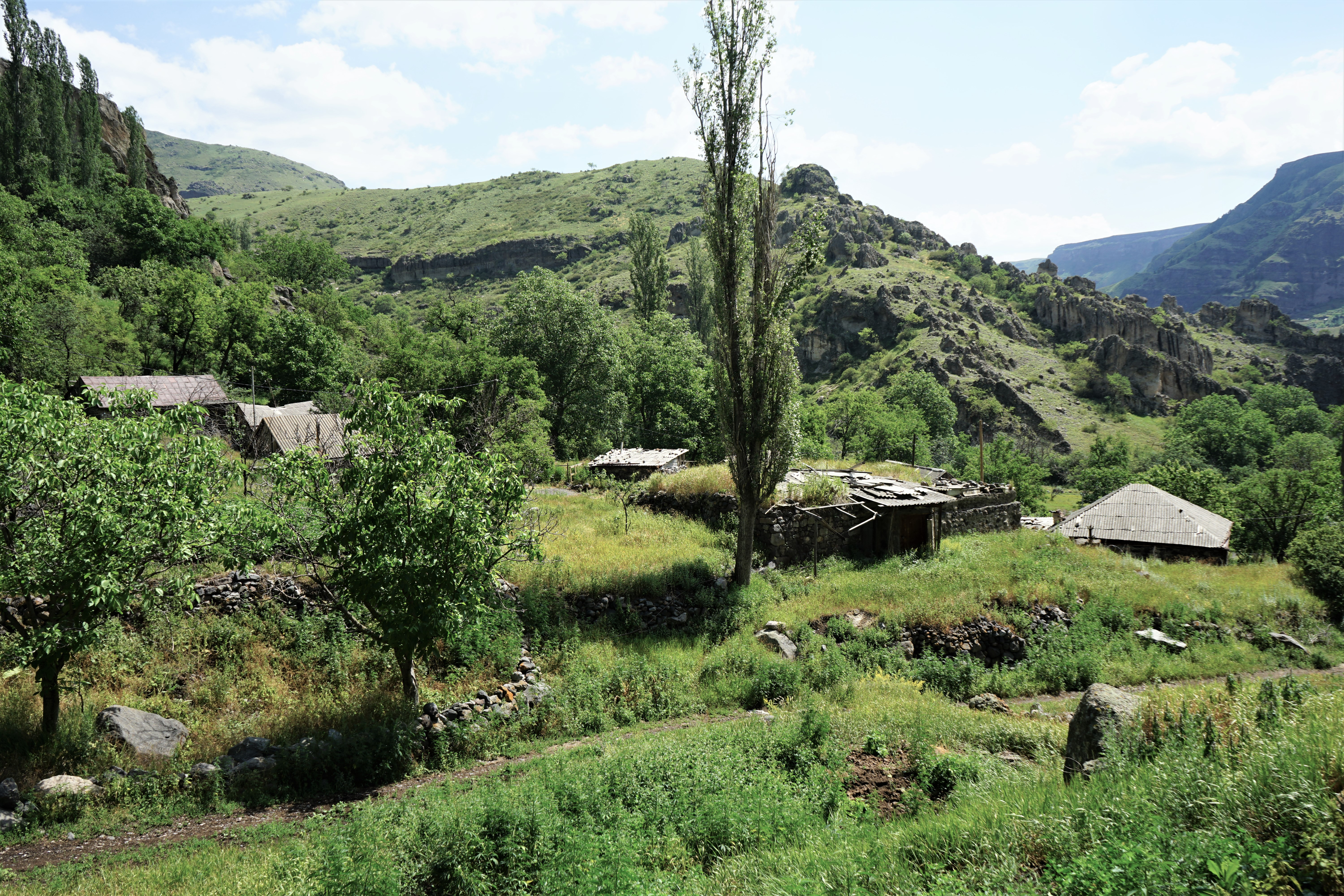 Chachkari Village, Aspindza Municipality, Georgia